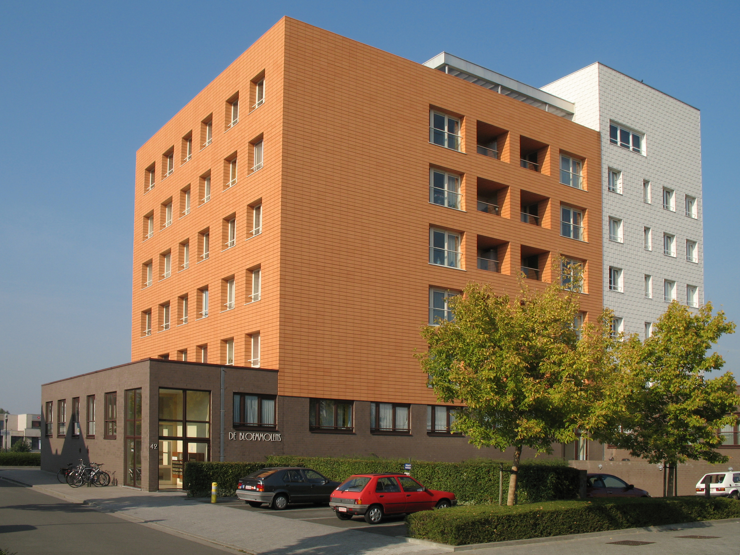 Bruges, Belgium: former mill transformed into appartment building